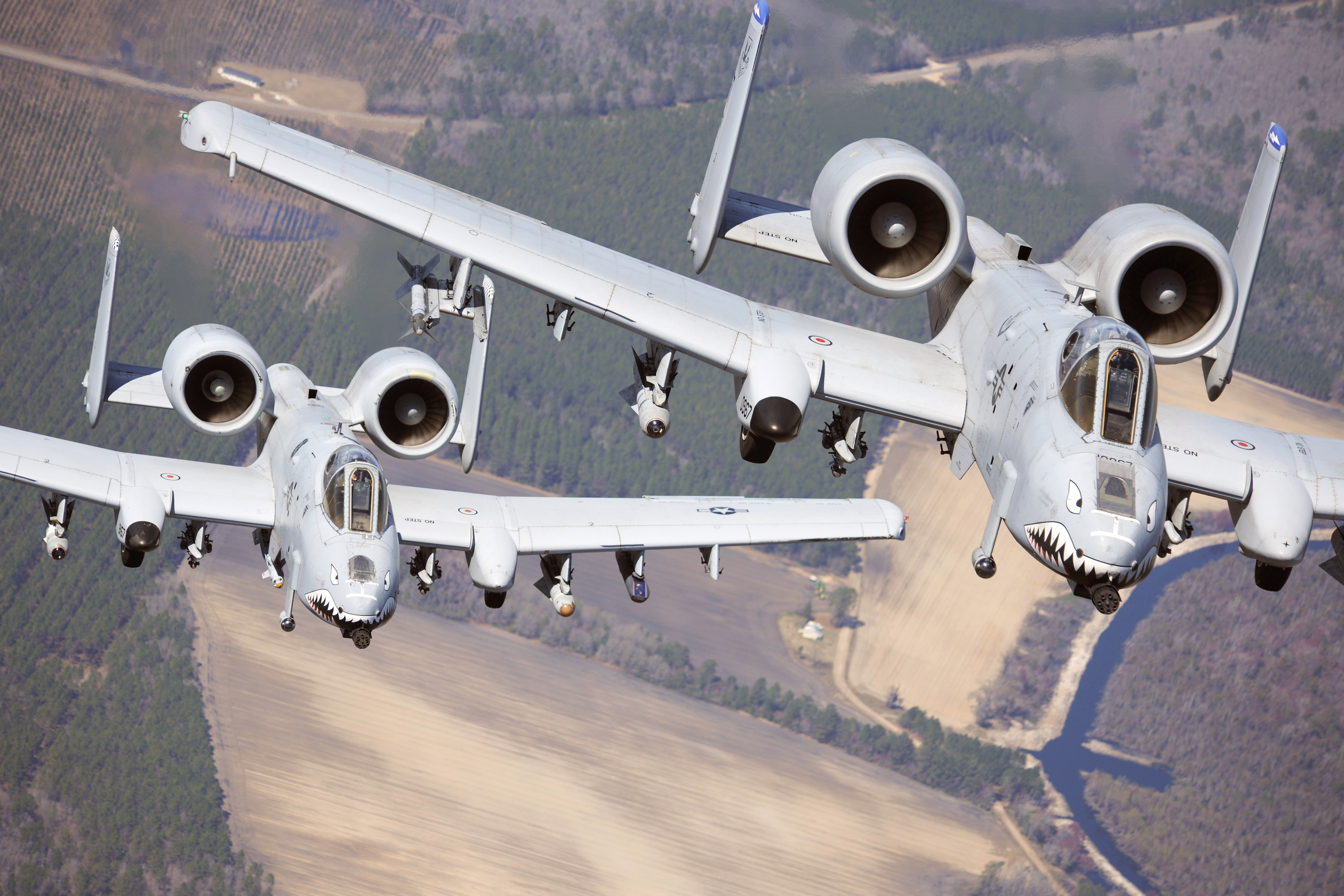 Two A-10C Thunderbolt II aircraft pilots fly in formation during a training exercise March 16, 2010, at Moody Air Force, Georgia. Members of the 74th Fighter Squadron performed surge operations to push its support function to the limit and simulate pilots' wartime flying rates.